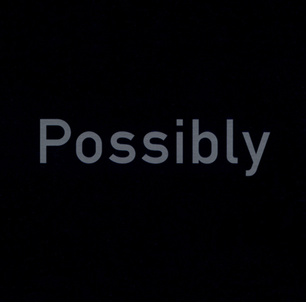 Album cover for Björk's Possibly Maybe